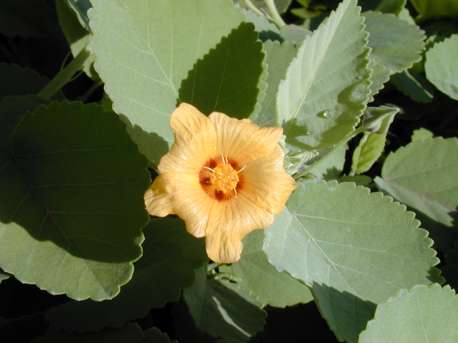 Sida fallax (flower and leaves). Location: Maui, Kanaha Beach